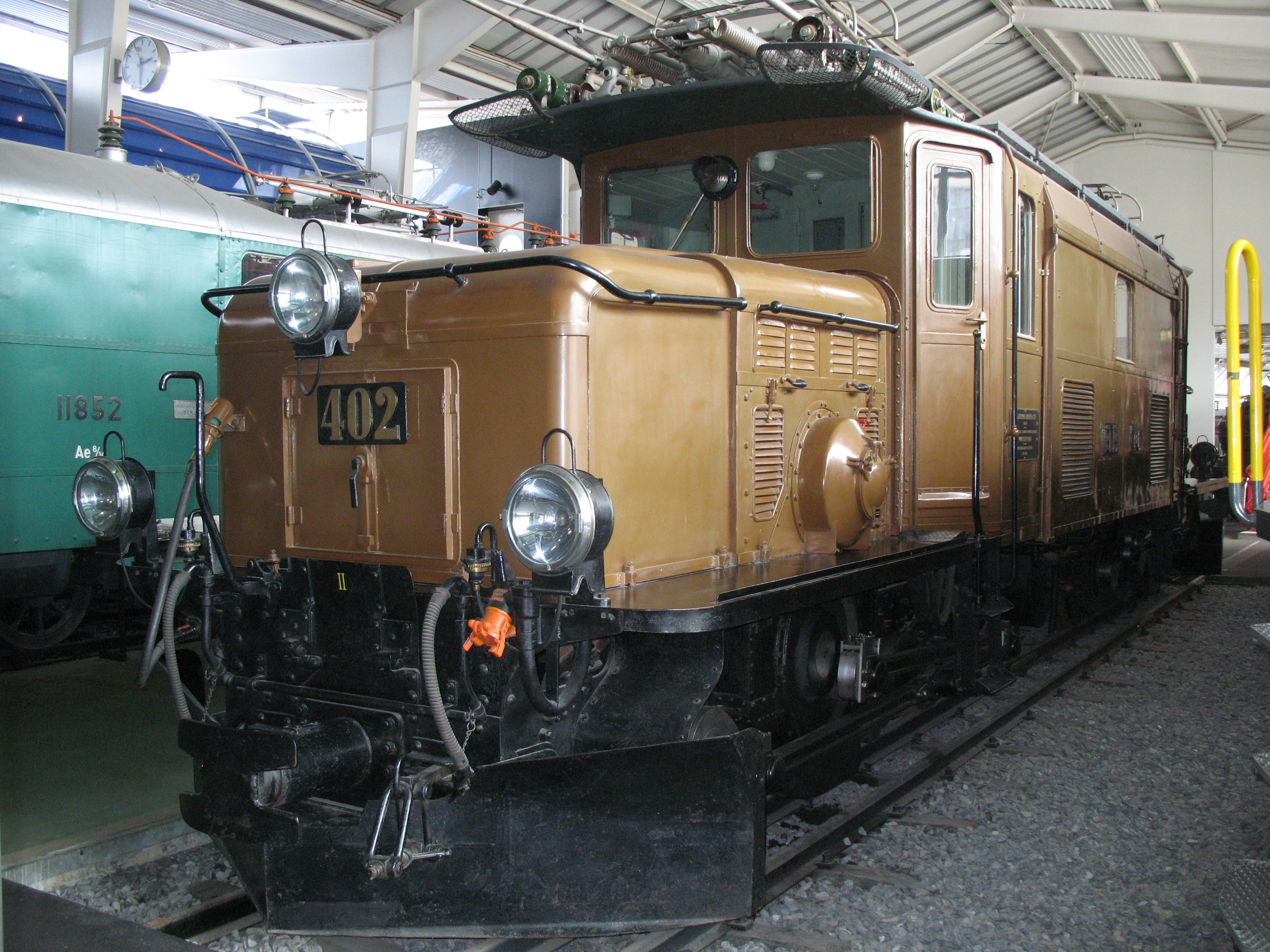 RhB Ge 6/6 I in the Swiss Transport Museum, Luzern, Switzerland